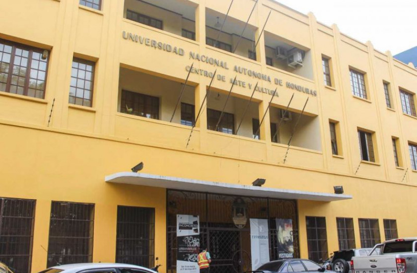 Facade of the art and culture center of the UNAH.